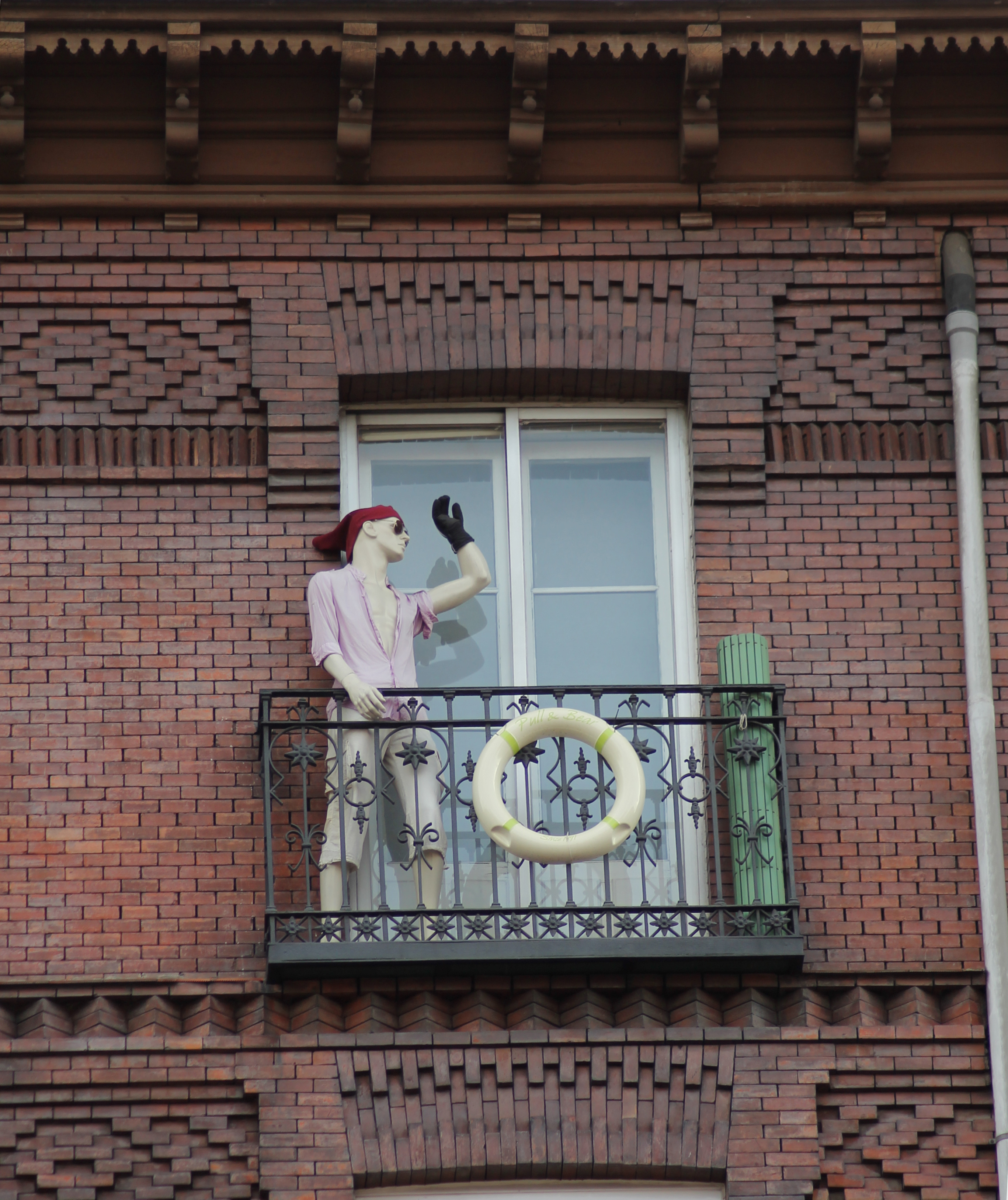 A balcony at 33 Ronda de Atocha (street) in Madrid (Spain).